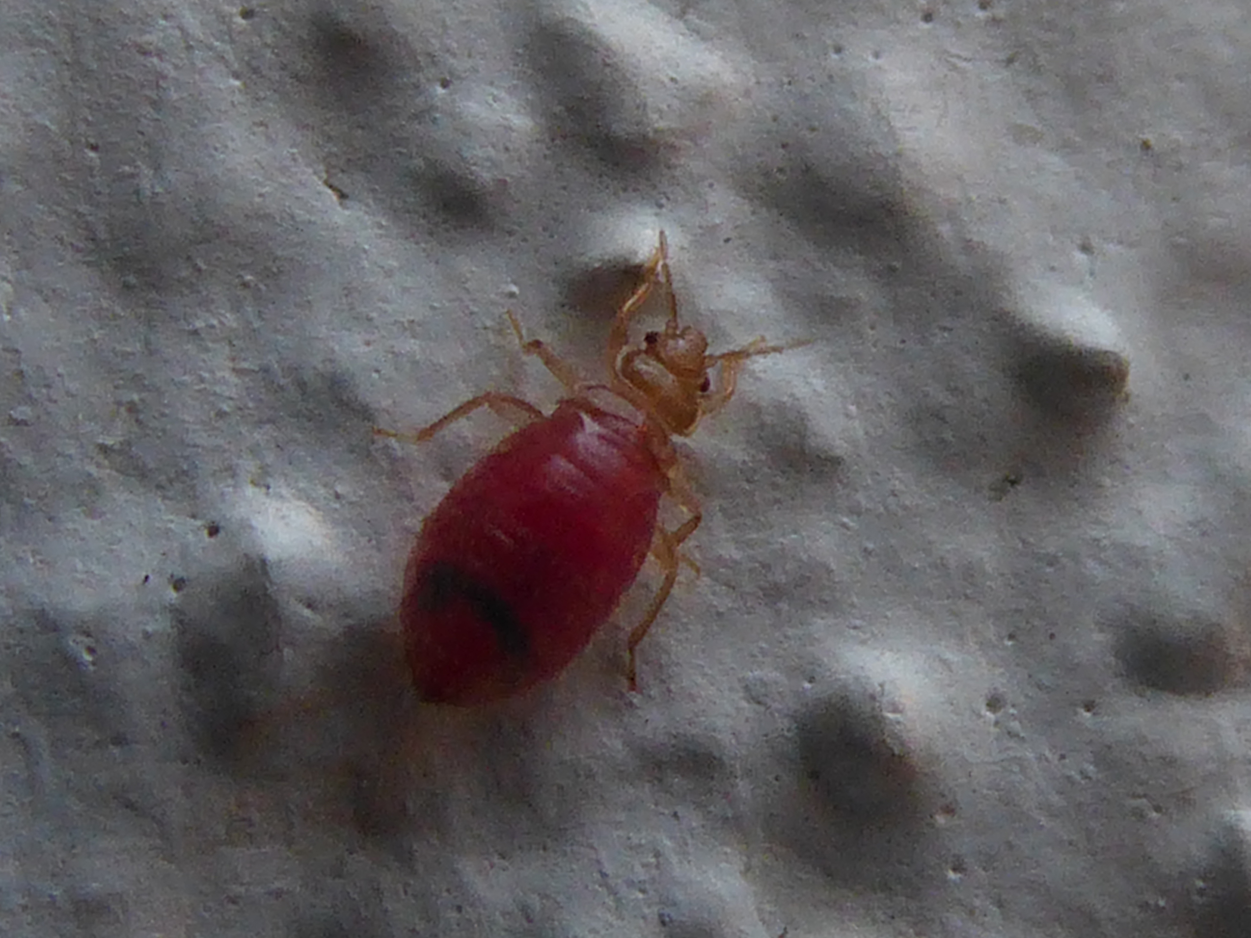 Sated Oeciacus hirundinis photographed in Piazzo (Segonzano, Trentino, Italy)